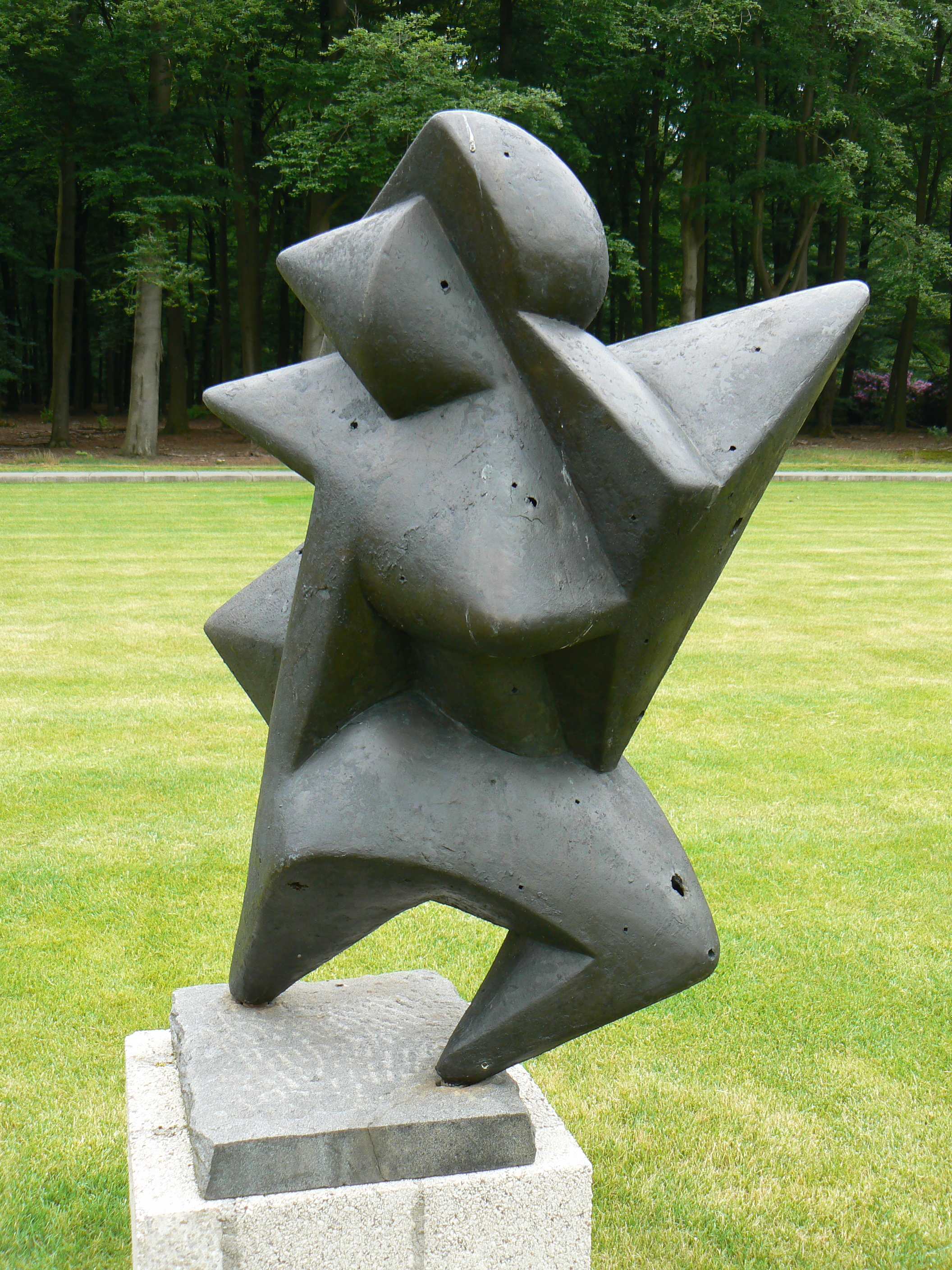 sculpture La Conquista (1954) by Umberto Mastroianni in sculpturepark KMM/The Netherlands